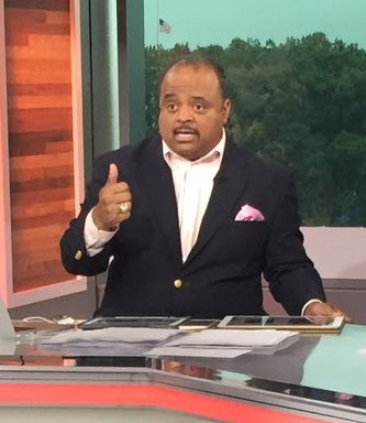 Roland Martin in 2017 on NewOne